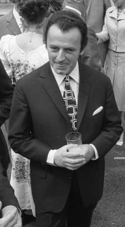 Title: Bonn, Bundeskanzler Brandt empfängt Schauspieler Extra information: Rechts Willy Brandt, Mitte Eddie Arent People in the image: Eddi Arent Factual corrections and alternative descriptions are encouraged separately from the original description. Additionally errors can be reported at this page to inform the Bundesarchiv. Original historic description: Bundeskanzler Willy Brandt empfängt Filmschauspieler